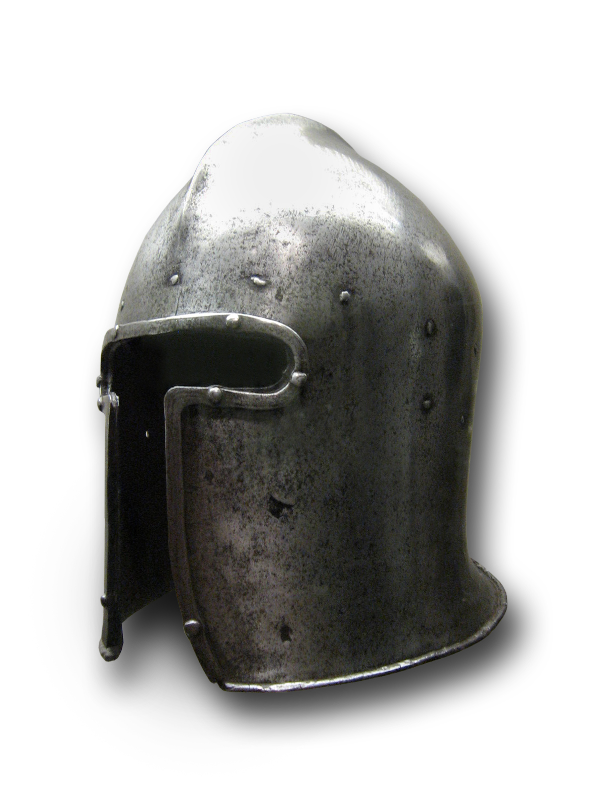 Original 15th century barbute of the T-shaped design from the Philadelphia Museum of Art's Kretzschmar von Kienbusch Collection of arms and armour.